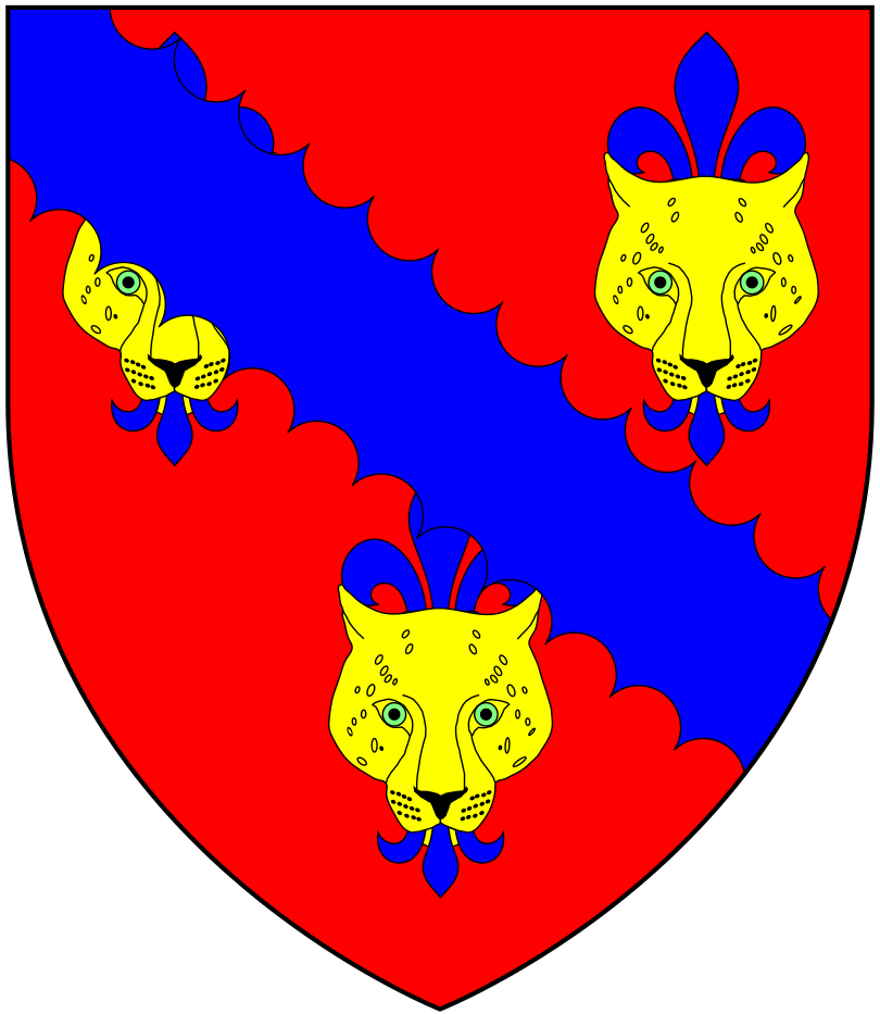 Arms of the Denys family of Glamorgan and of Siston and Dyrham, Gloucestershire, England, UK: Gules, three leopard's faces or jessant-de-lys azure over all a bend engrailed of the last. Drawn from life, based on commons File:Leopard in the Colchester Zoo.jpg by Keven Law